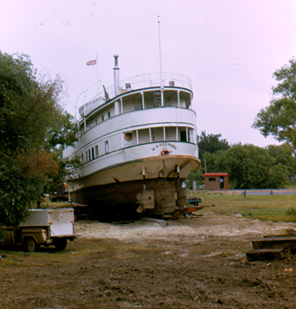 MS Keenora, dry-docked and dragged to its present location in Selkirk Park 1973.